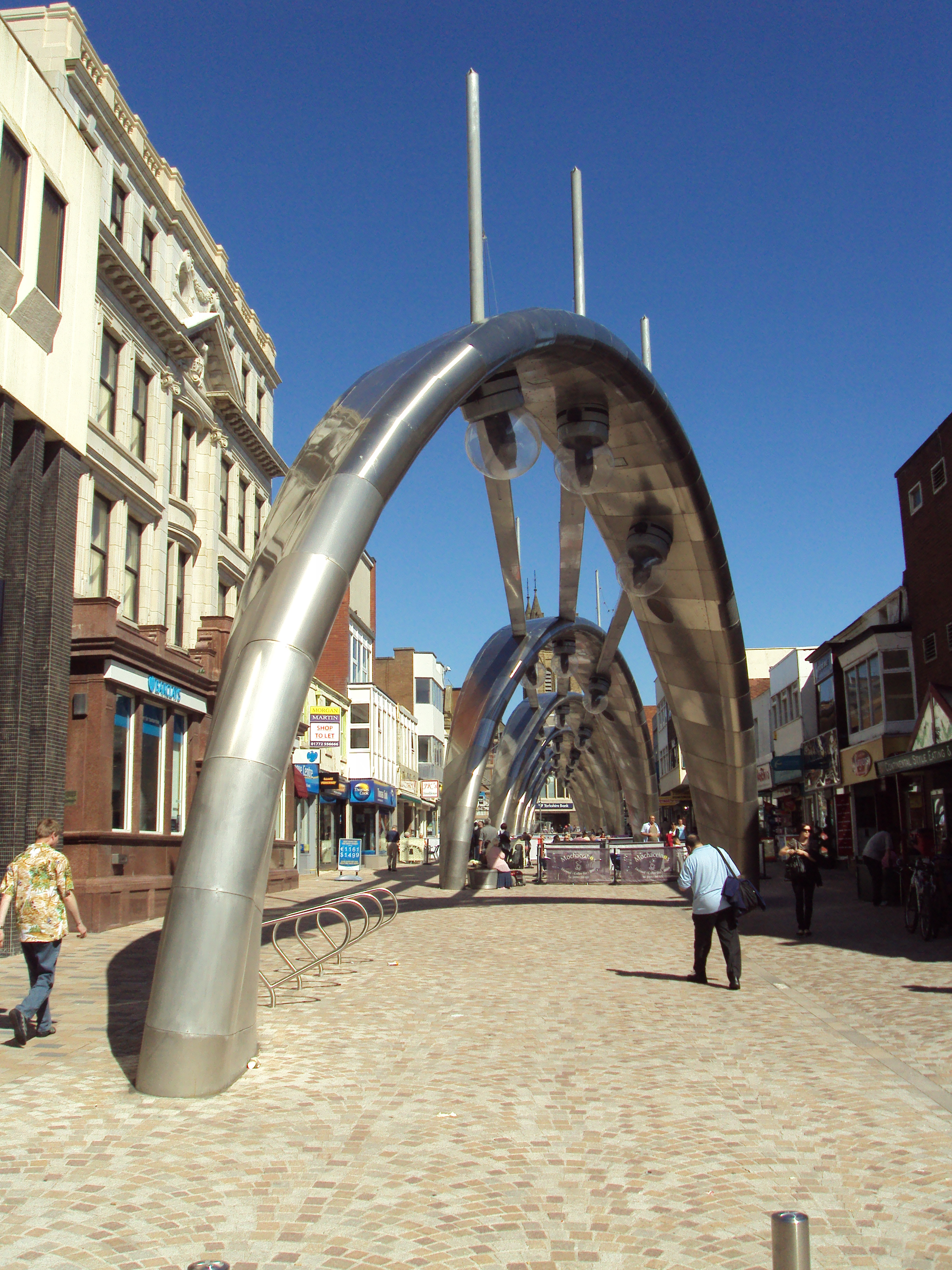 Stainless Steel arches of the Brilliance Scheme in Birley Street, Blackpool, Lancashire intended to provide evening lighting for cafés and shoppers.